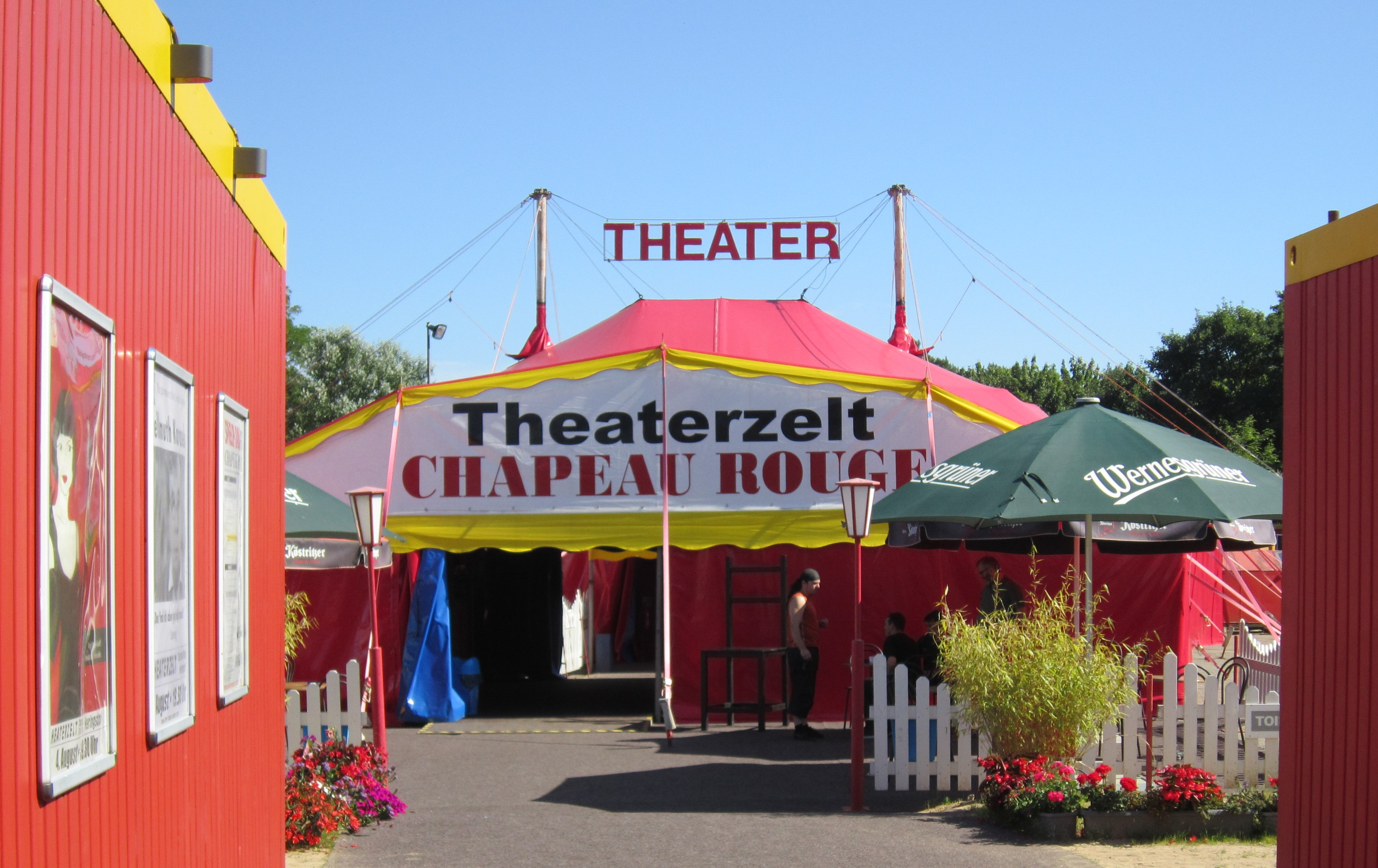 Theatre Chapeau Rouge in a tent at Heringsdorf Beach (Usedom)